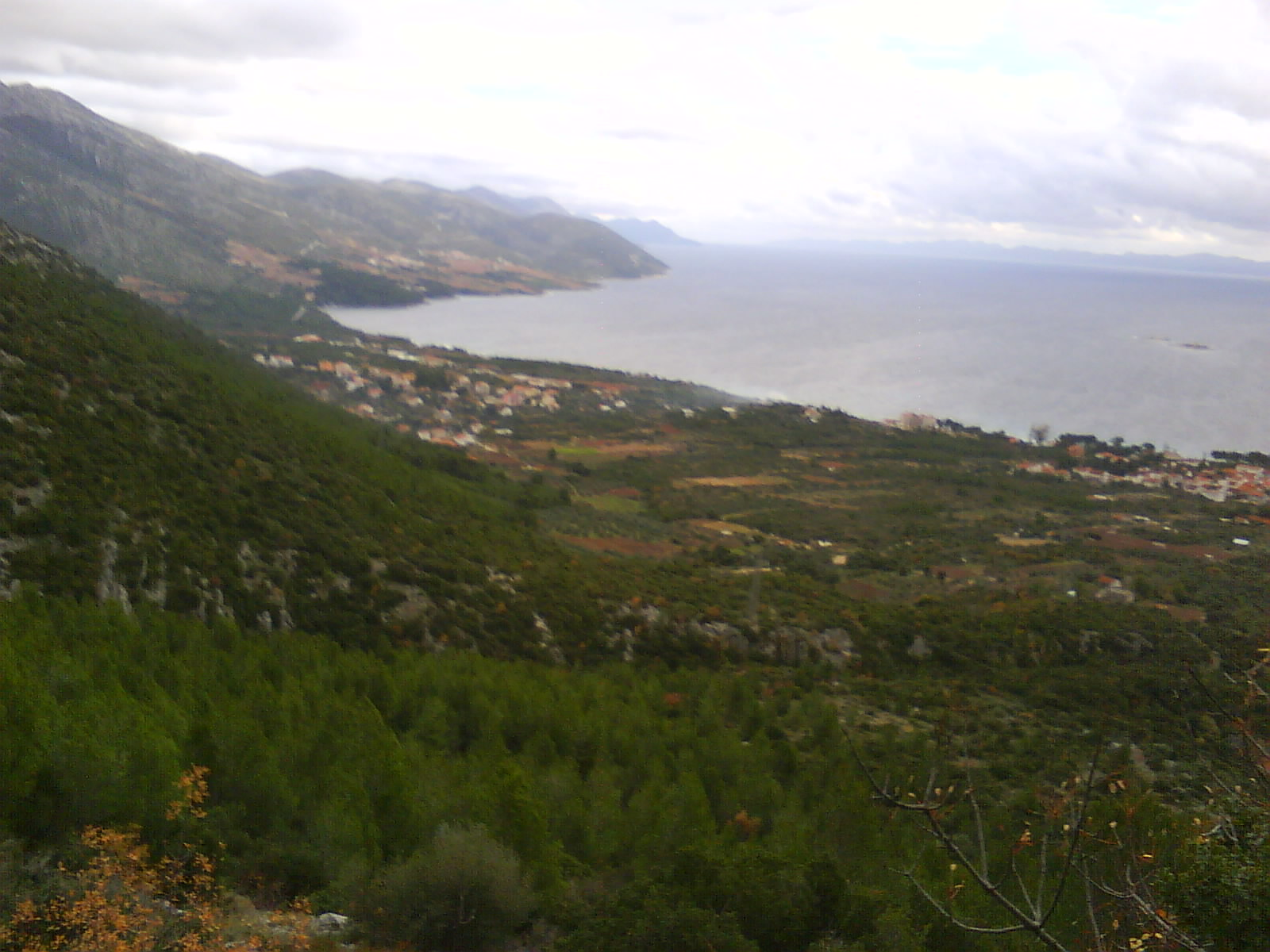 Track Priko Kabla towards the peak hill of St. Ilija